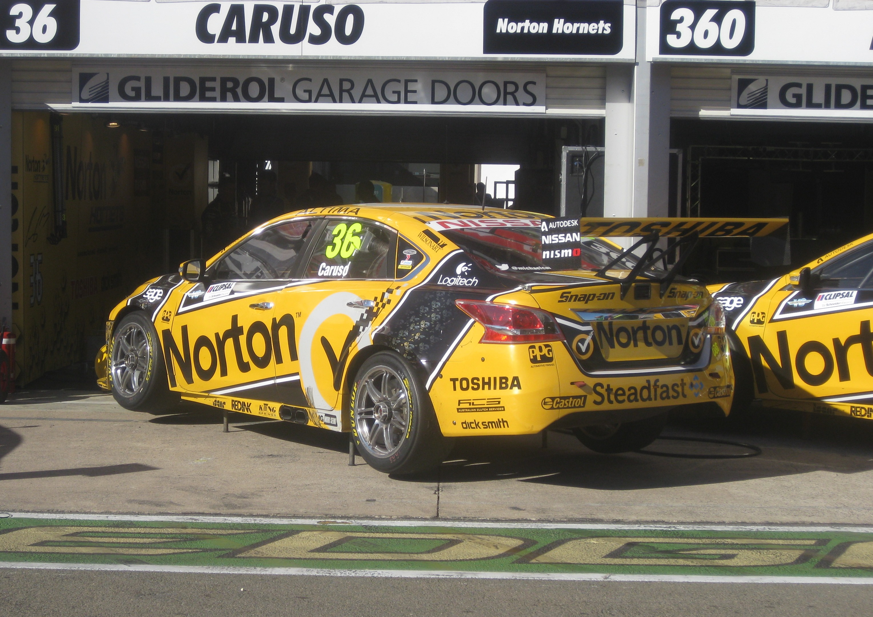 The Nissan L33 Altima of Michael Caruso at the 2014 Clipsal 500 Adelaide.